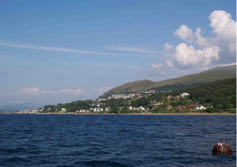 Fort William seen from Loch Linnhe. Taken by myself. Public domain.